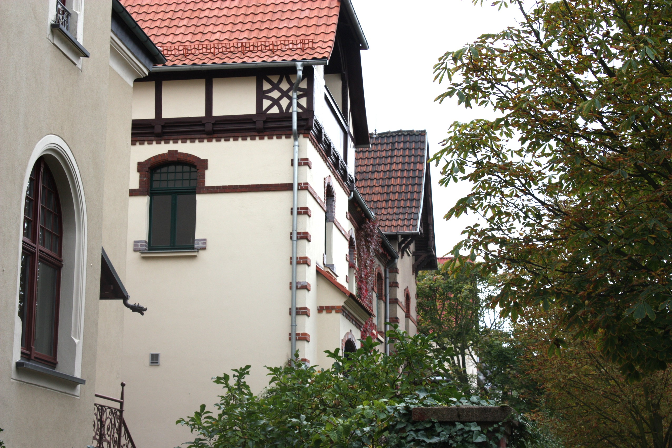 Halle (Saale), houses No. 20 and 21 in the Friedenstraße